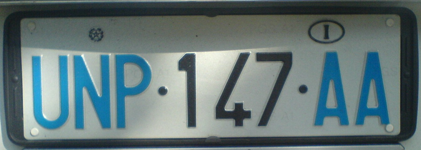 UNP • 147 • AA